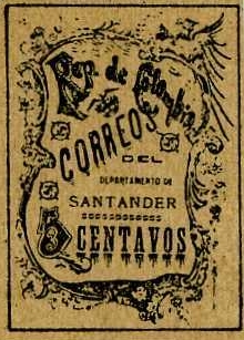 1905 stamp of Santander.